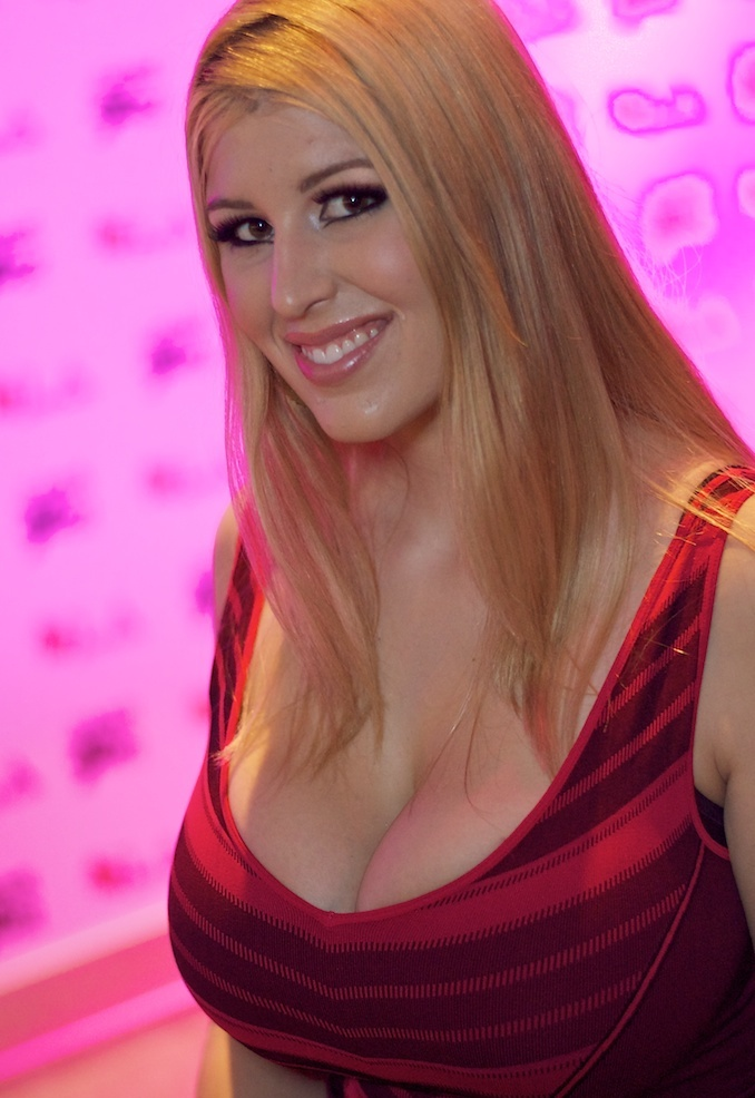 2012 AVN Adult Entertainment Expo (AEE) - Hard Rock Hotel - Las Vegas. © 2012 GEC